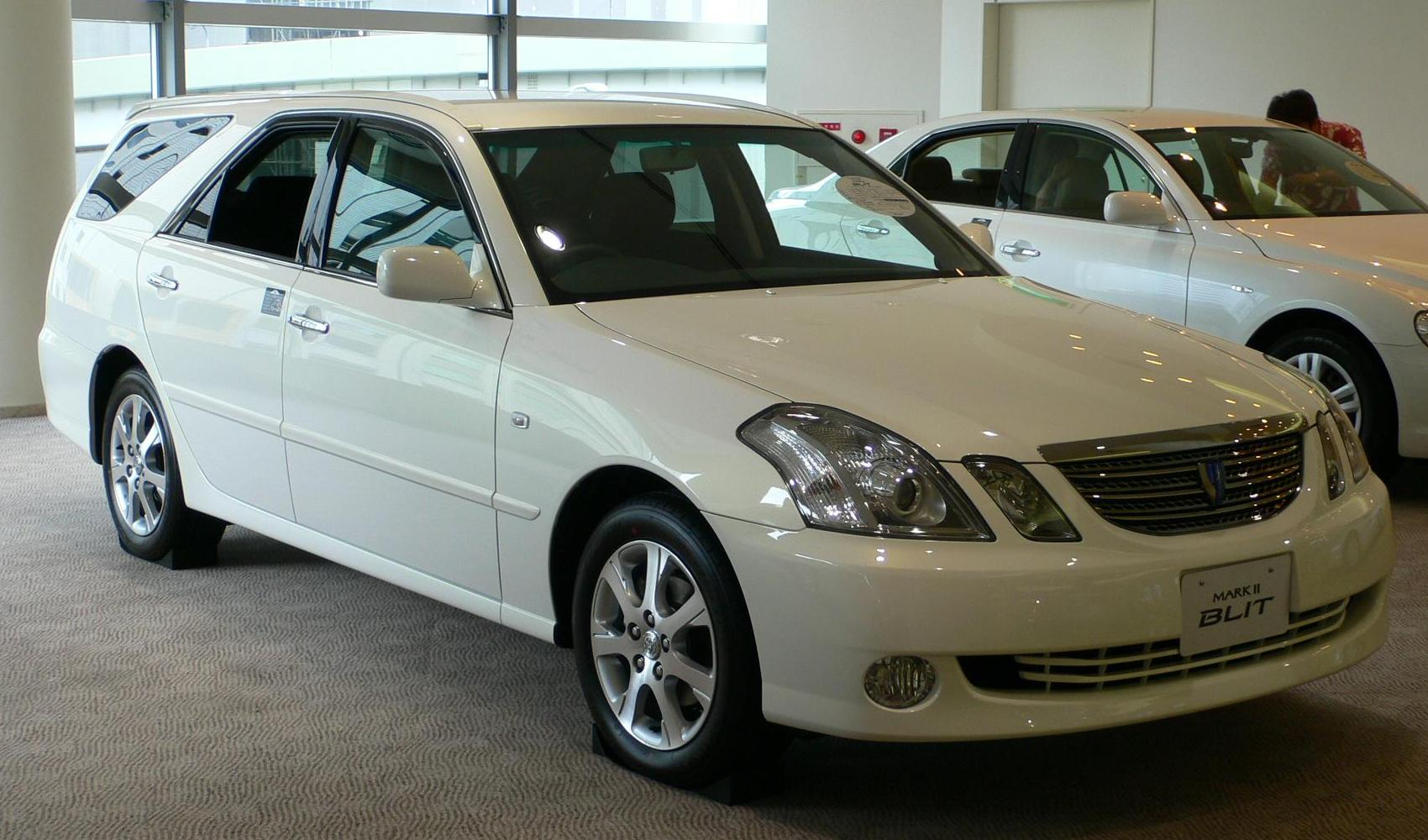 Toyota_Mark_II_Blit2006 taken in Showroom of Toyota-AMLUX